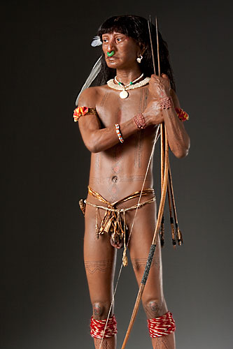 Historical Mixed Media Figure of a Carib Warrior produced by artist/historian George S. Stuart and photographed by Peter d'Aprix. This image, from the George S. Stuart Gallery of Historical Figures® archive ( is provided for all uses with appropriate attribution. Any derivatives must be shared in the same manner. Contributor mharrsch is webmaster for the gallery site.